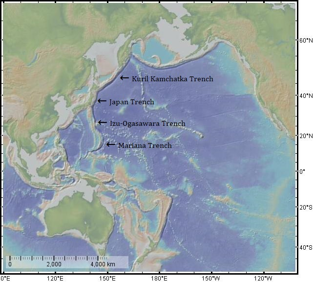 Map of the Japan Trench and surrounding Japanese trenches. The map was created using GeoMapApp.